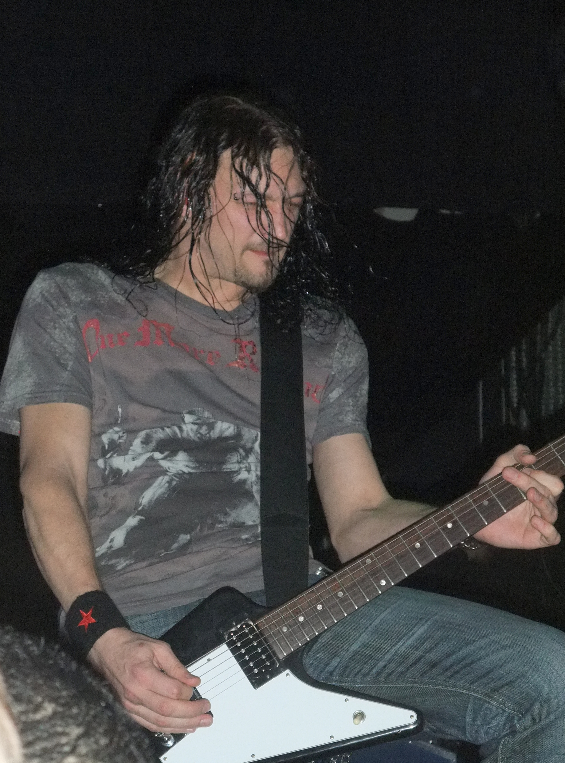 Jens Ludwig performing with Edguy at Islington Academy in London, 20th March 2010